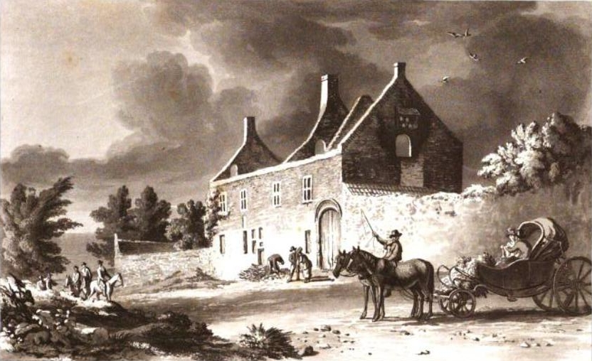 House in which Buonaparte slept the night before the Battle